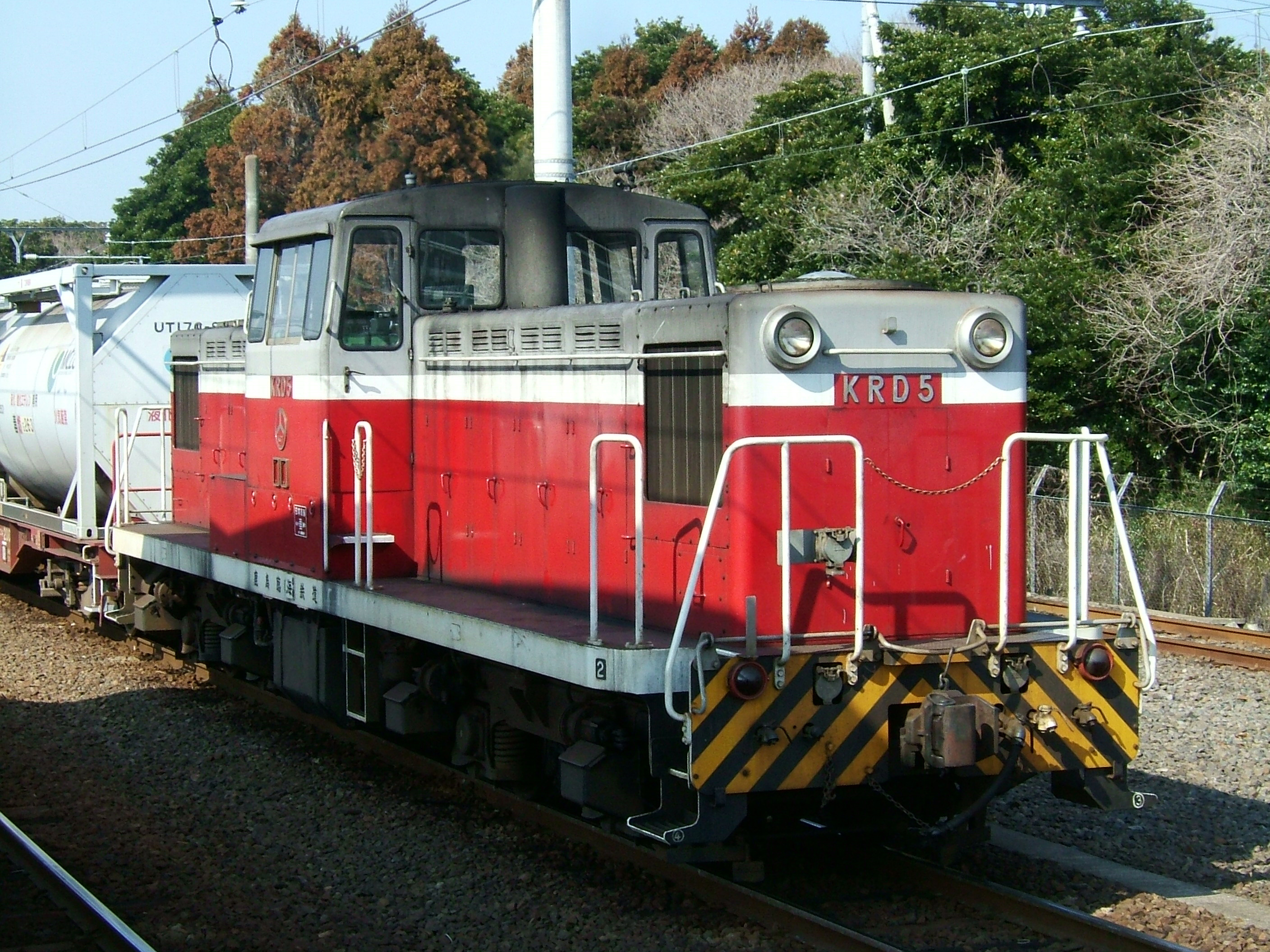 Kashima Seaside Railway diesel locomotive series KRD